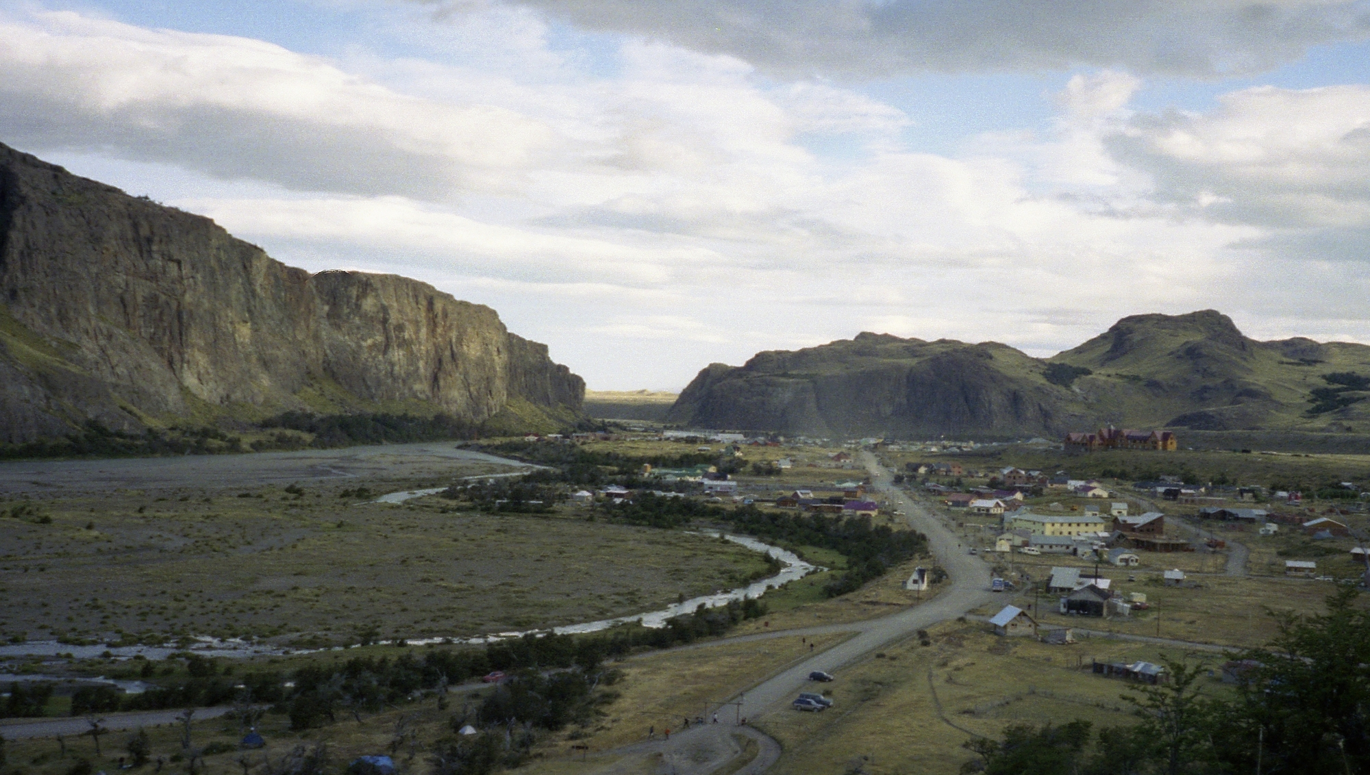 The village of El Chalten, given path Park Los Glaciares.